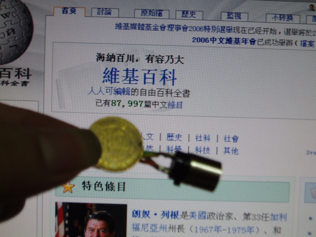 A S-Video Pin with a Hong Kong 10-cent.（S-端子與香港一毫的對比）